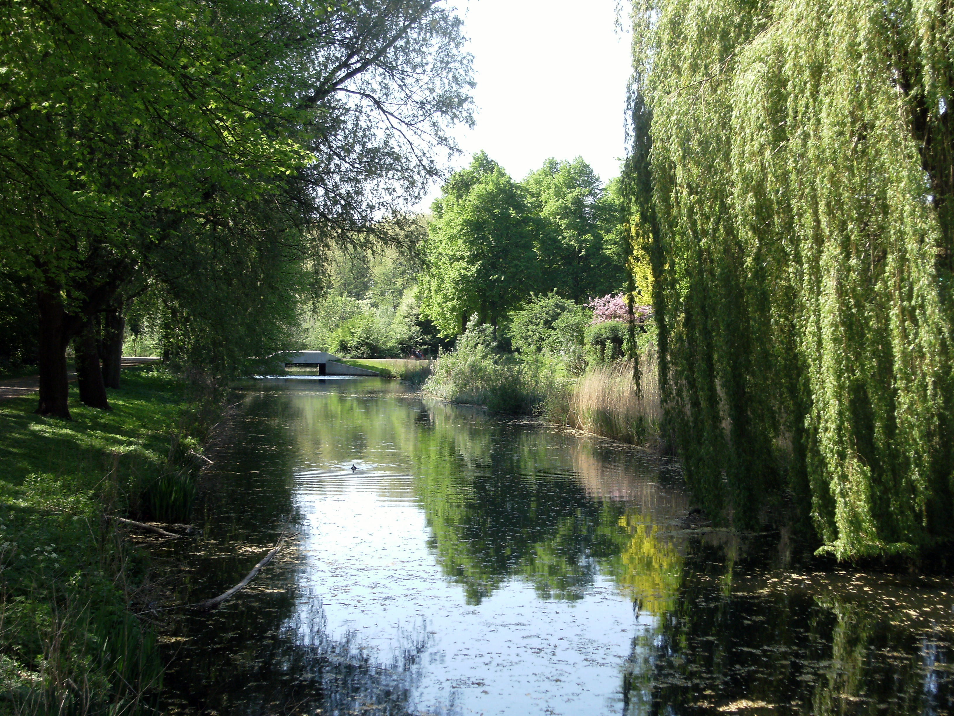 2011-04- 25 in Amsterdam; Canal along Cornelis Lelylaan.